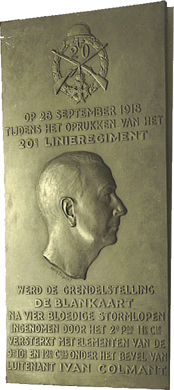 Monument in Woumen, Belgium, for Dr. Ivan Colmant, member of the Belgian anti-Nazi résistance during WW2